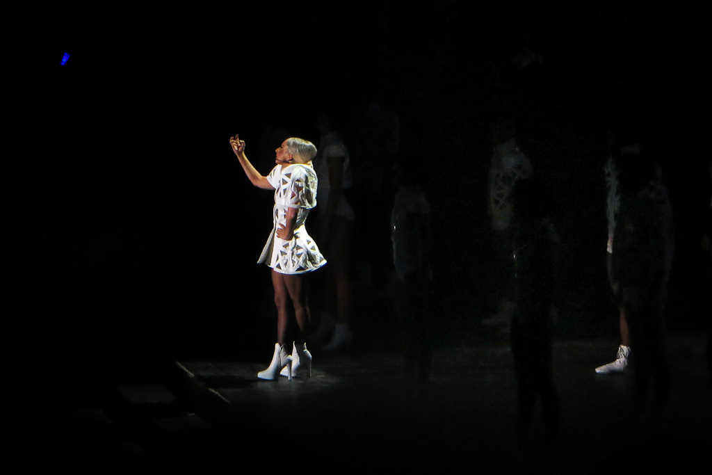 Gaga performing at the Born This Way Ball in Hong Kong.